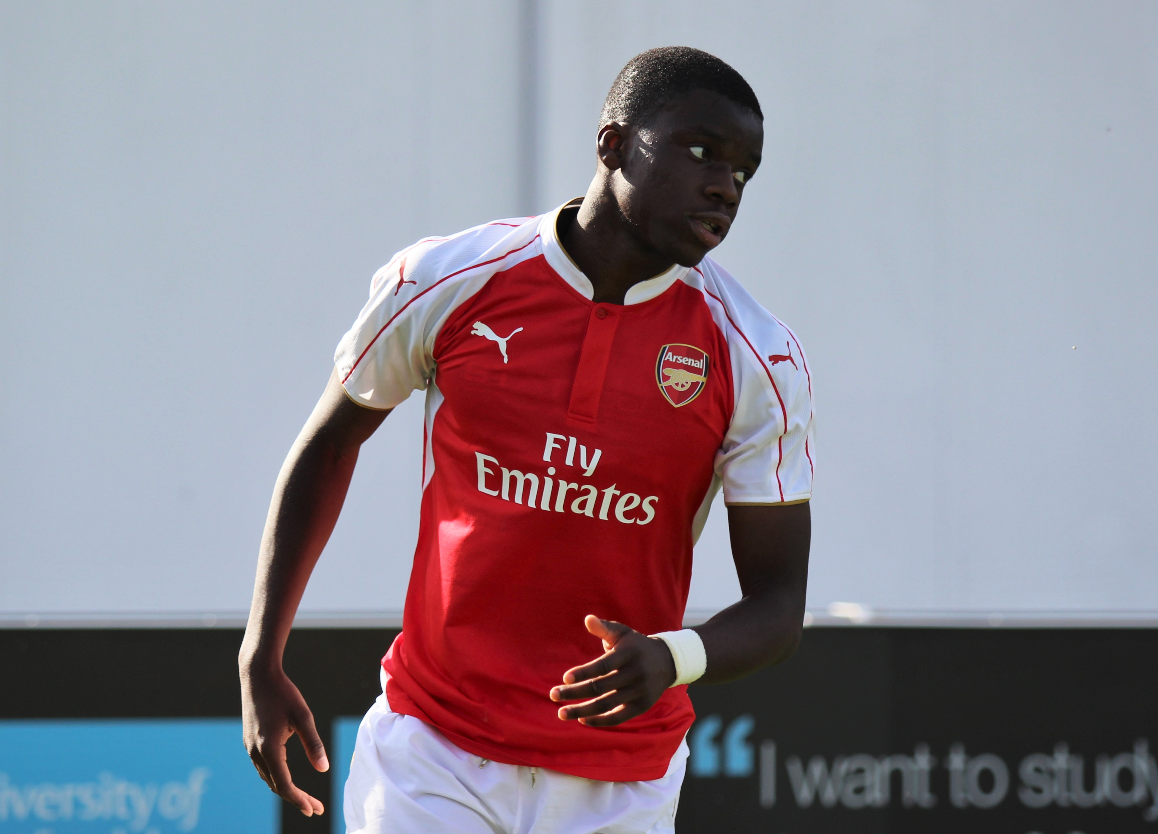 Stephy Mavididi of Arsenal U19s during the game against Olympiacos.